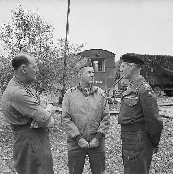 The Commander of the 8th Army, General Sir Oliver Leese with the Deputy Commander in Chief, Lieutenant General Joseph Devers and Lieutenant General Sir Richard McCreery at 8th Army Tactical Headquarters.